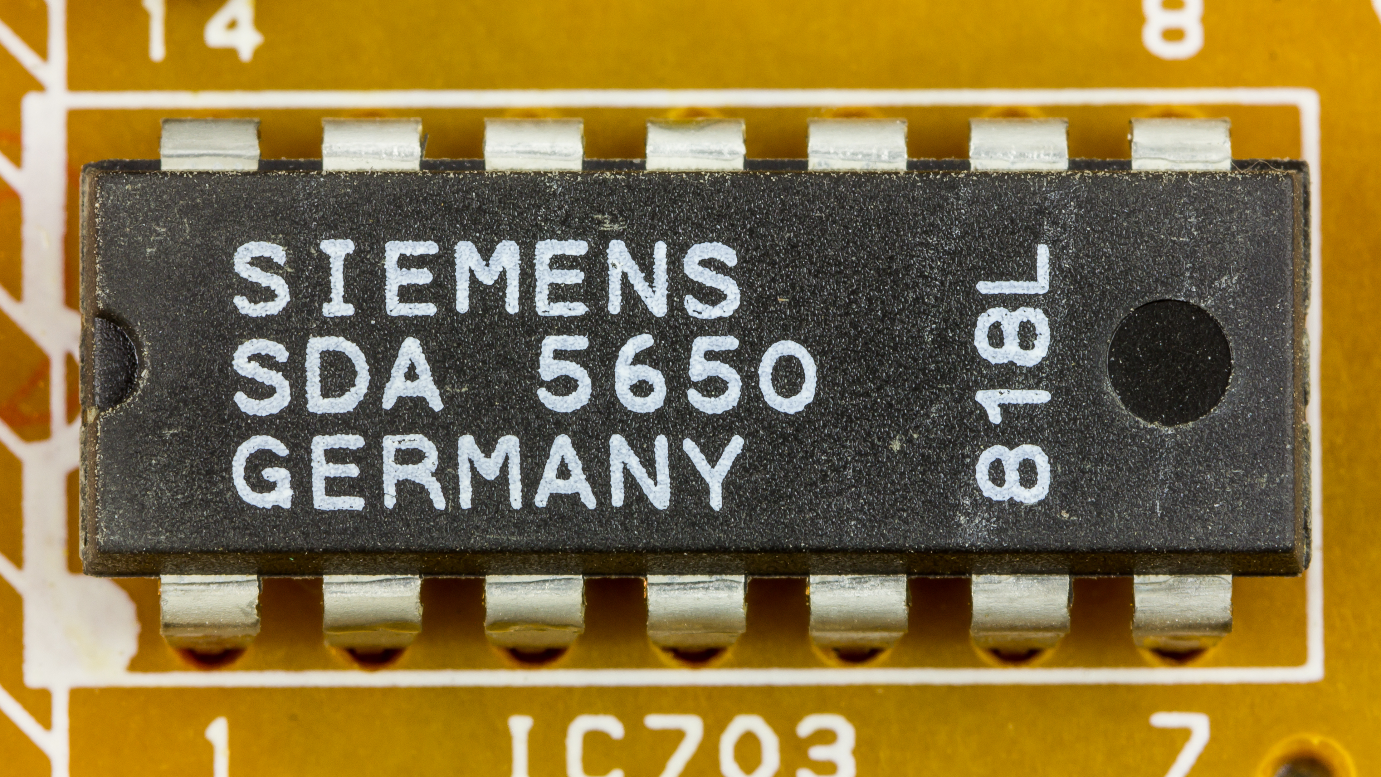 Medion MD8910 - Siemens SDA 5650 - VPS / PDC-plus Decoder. Package: P-DIP-14-1